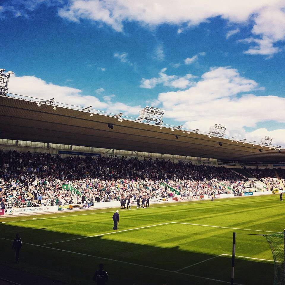 Home park during match vs. Portsmouth